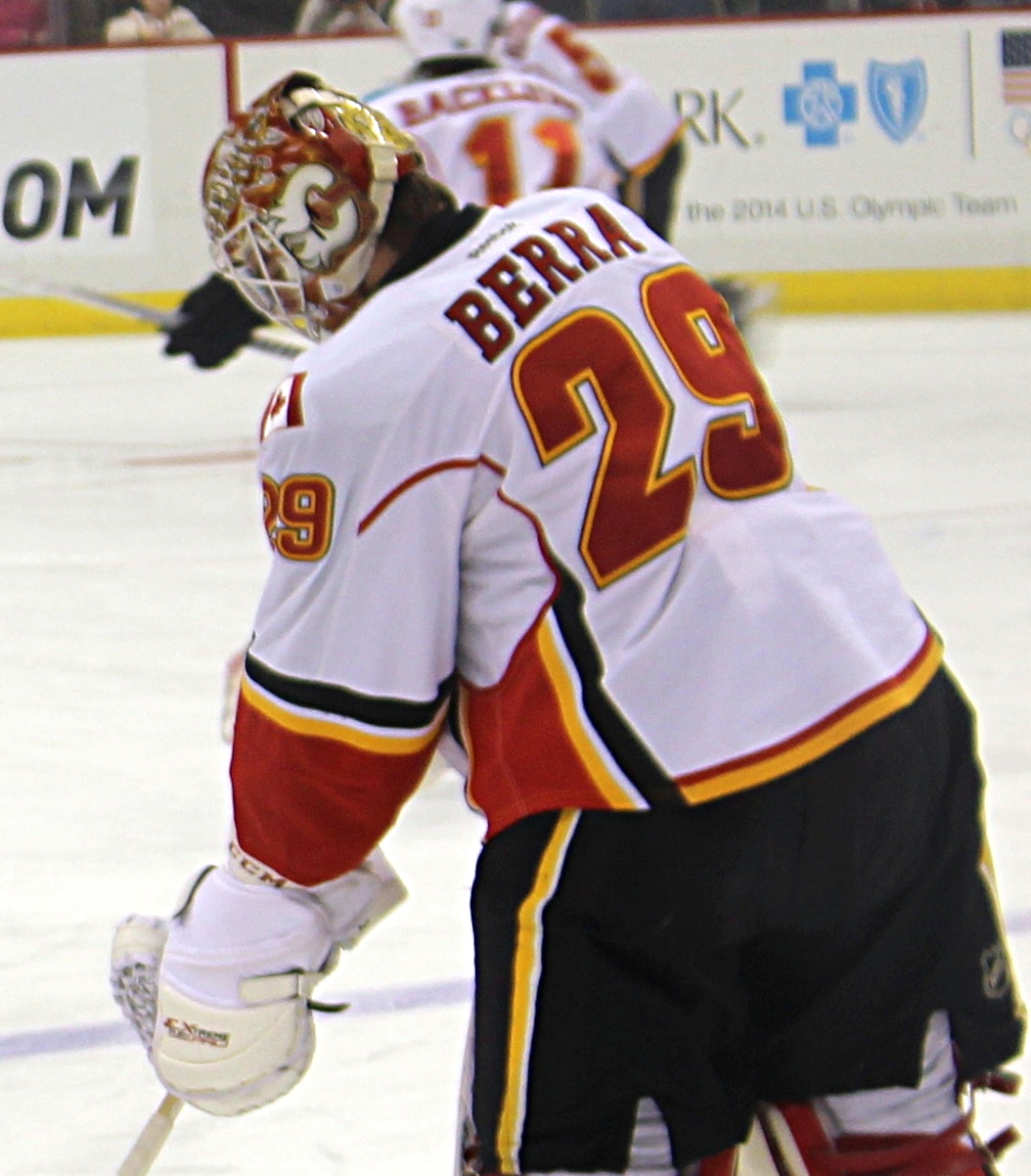 Calgary Flames backup goaltender Reto Berra warms up prior to a December 21, 2013, game against the Pittsburgh Penguins at Consol Energy Center in Pittsburgh, PA.